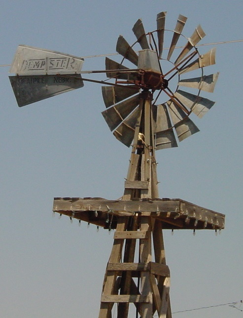 Photo of Dempster windmill at San Jon, New Mexico